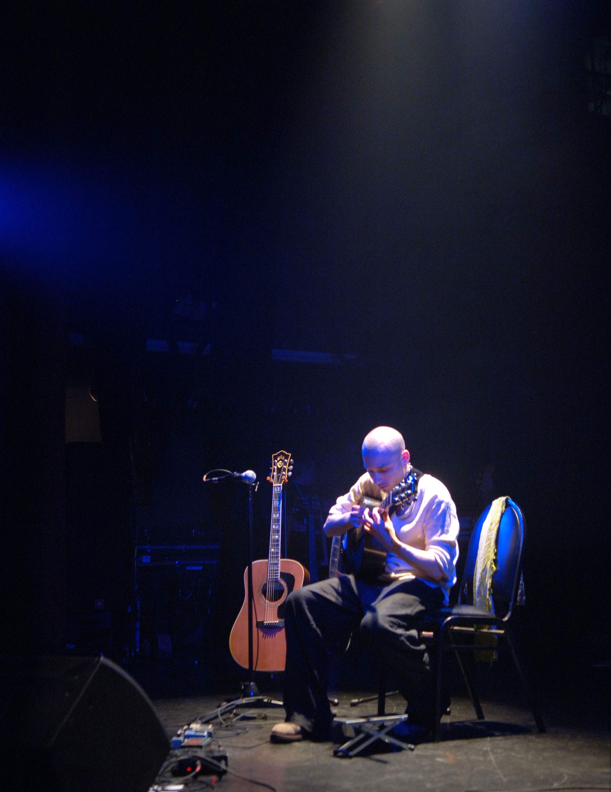 Erik Mongrain live at Club Soda of Montreal by Victor Diaz Lamich